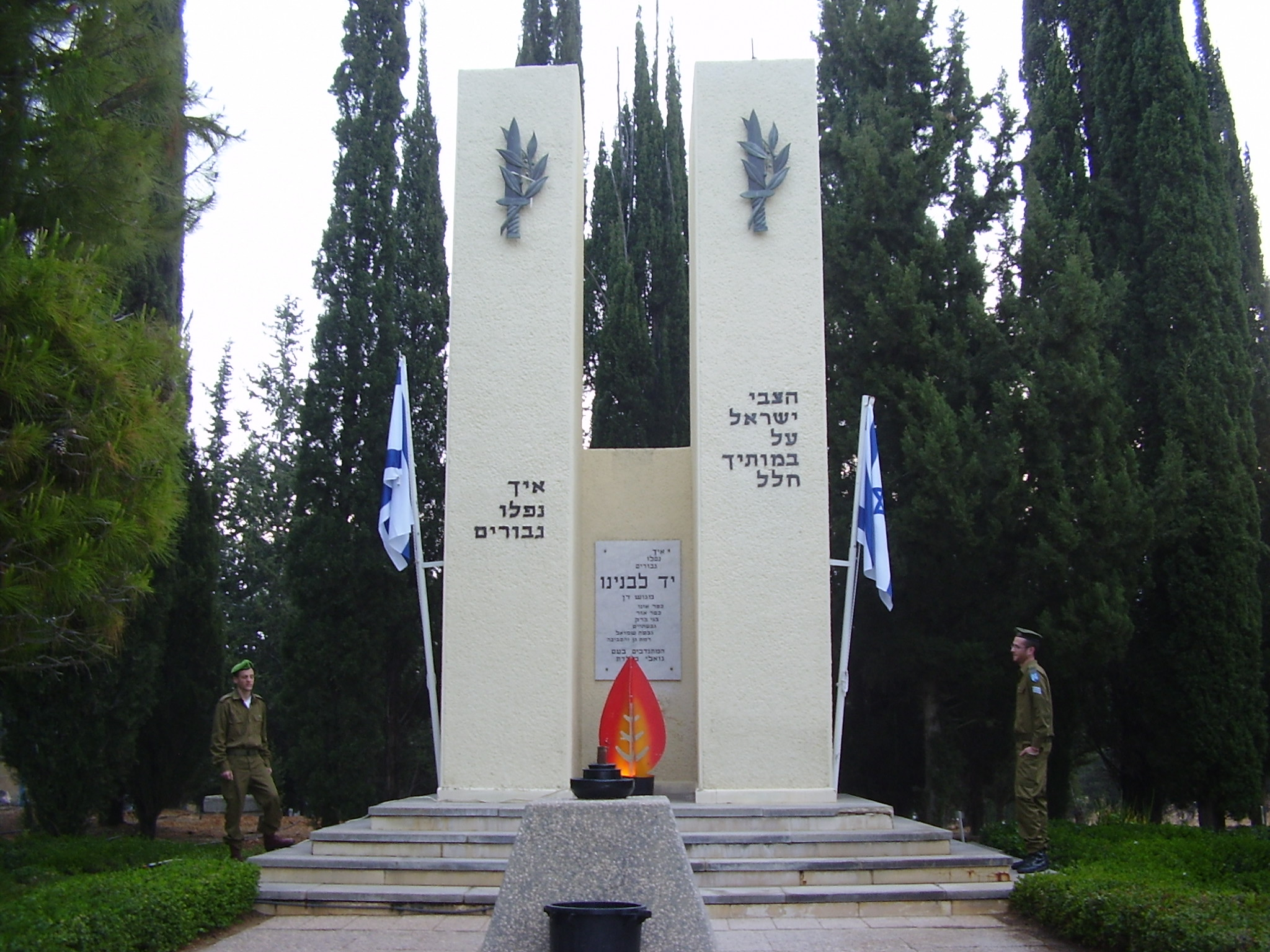 war memorial of gush-dan in tel-hashomer, israel אנדרטה לנופלים מגוש דן, בתל השומר